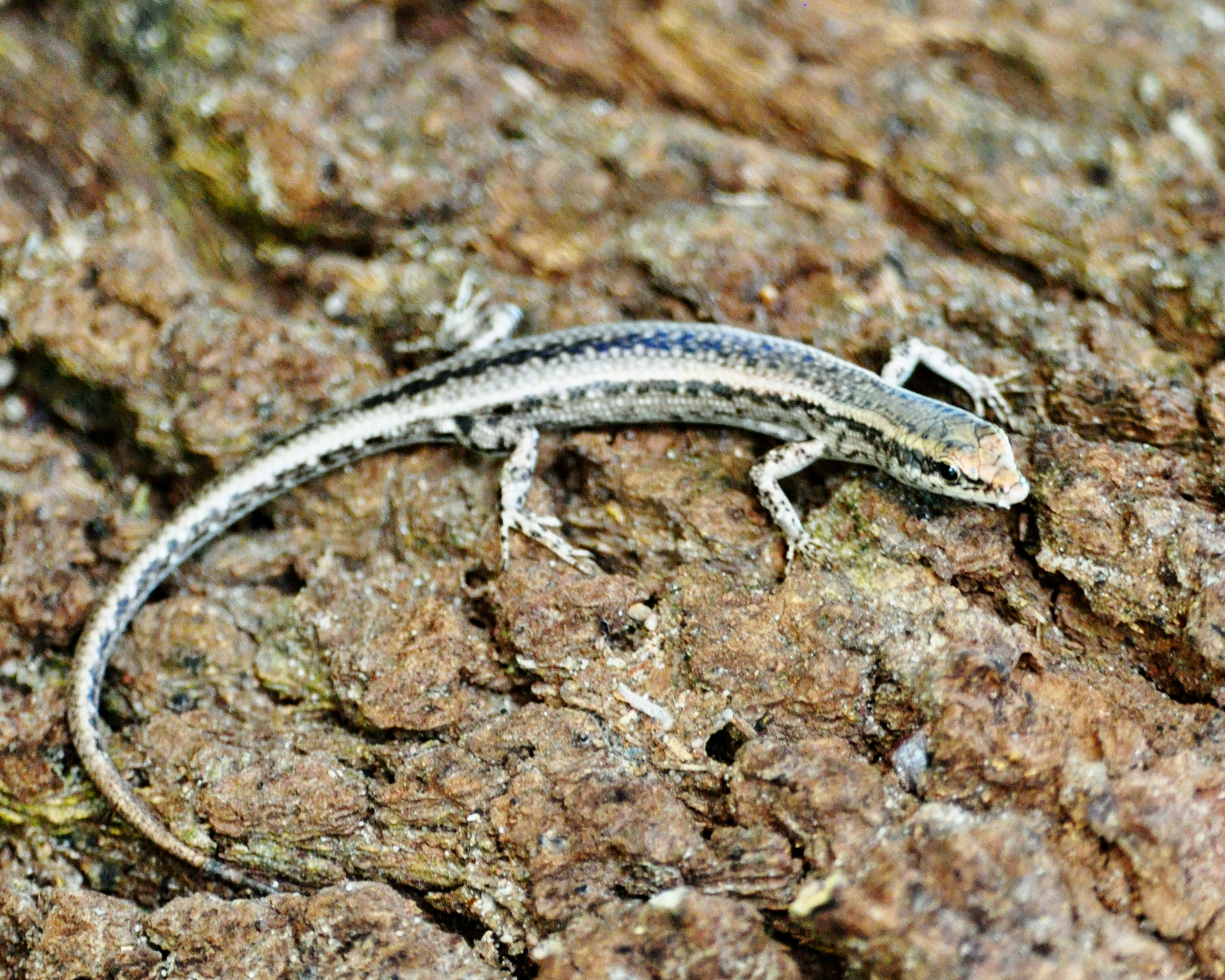 Cryptoblepharus metallicus in Nightcliff Darwin Northern Territory Australia